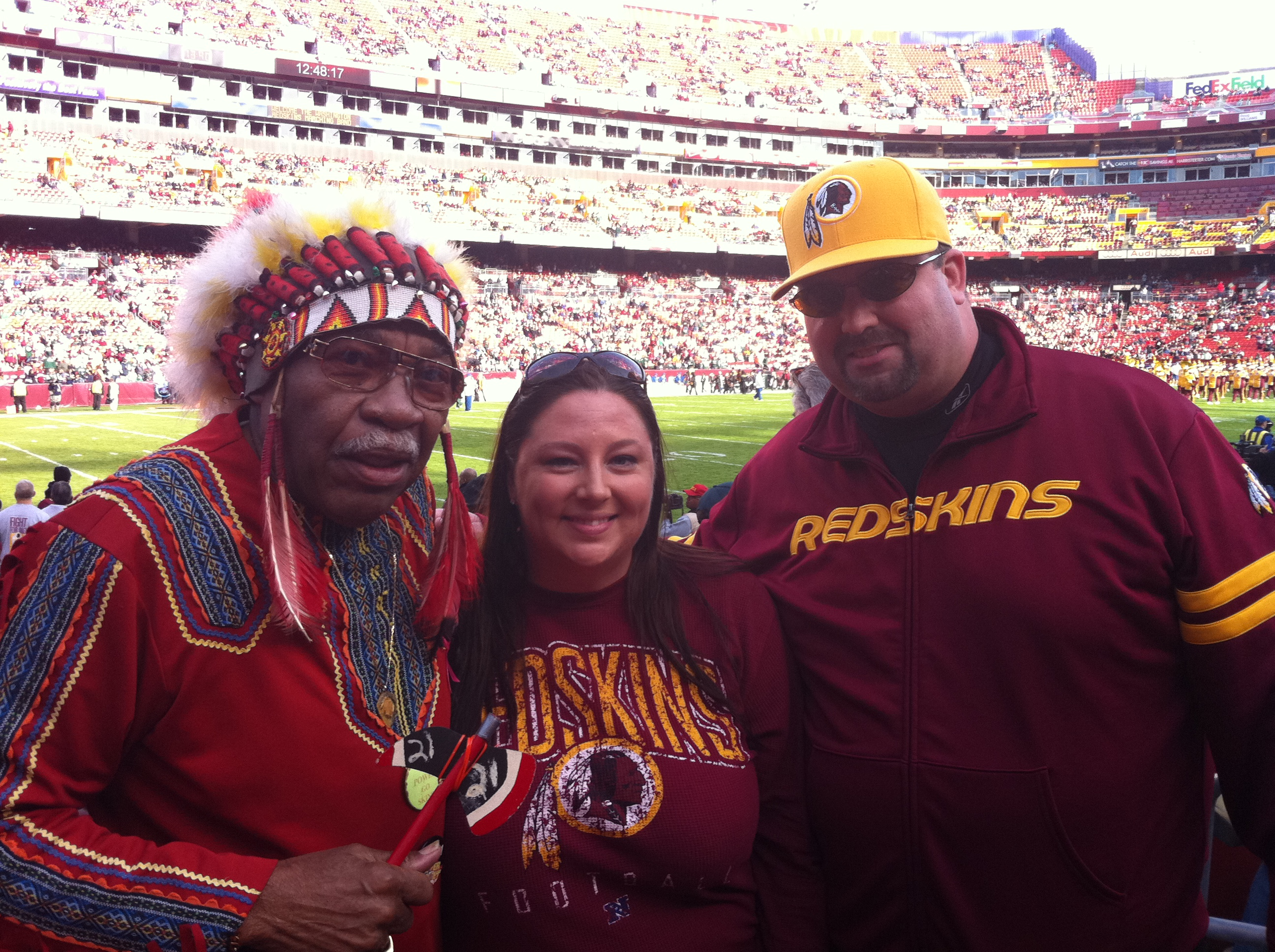 Chief Zee with fans at FedEx Field. Washington Redskins vs. New York Jets on December, 4, 2011.